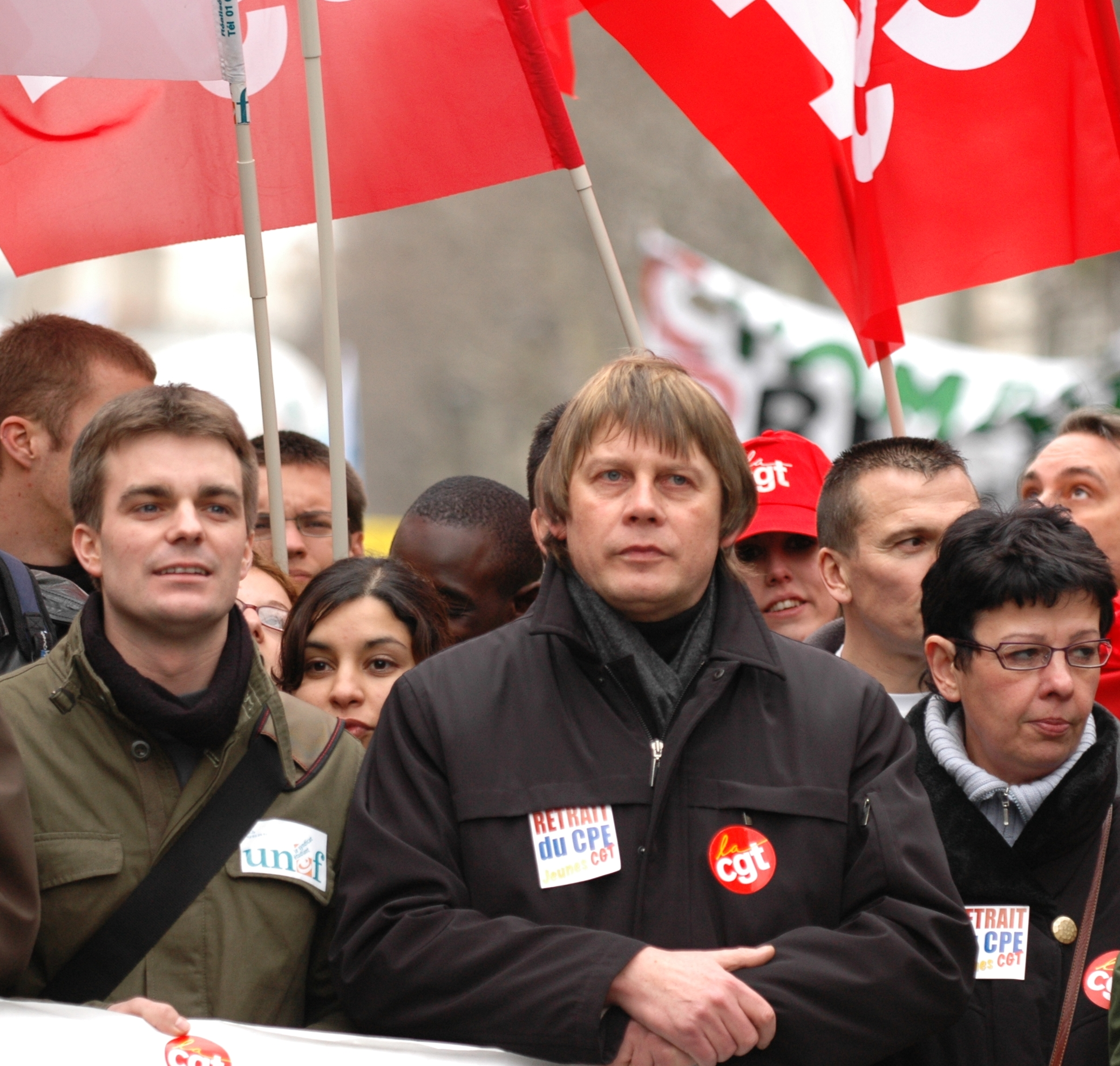 French trade union CGT leader Bernard Thibault (center) marching at the head of a demonstration against the "Contrat Première Embauche" (First Job Contract). Student union UNED leader Bruno Julliard is standing on his left. Paris, 7th March 2006.